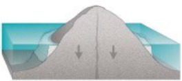 Internationalization of the diagram:Atoll forming. 1=Volcanic Island 2=Fringing reef 3=Barrier reeef Caption: Coral atolls develop from reefs fringing volcanic islands. As first hypothesized by Charles Darwin, and confirmed by ocean drilling done by British scientists a century ago, reefs fringing volcanic islands build vertically to sea level, forming steepwalled barrier reefs. As a volcanic island subsides, or sinks, with time, the growing reef keeps pace with the rising water level. When the island eventually submerges, the ring-shaped reef forms an atoll with a central lagoon.